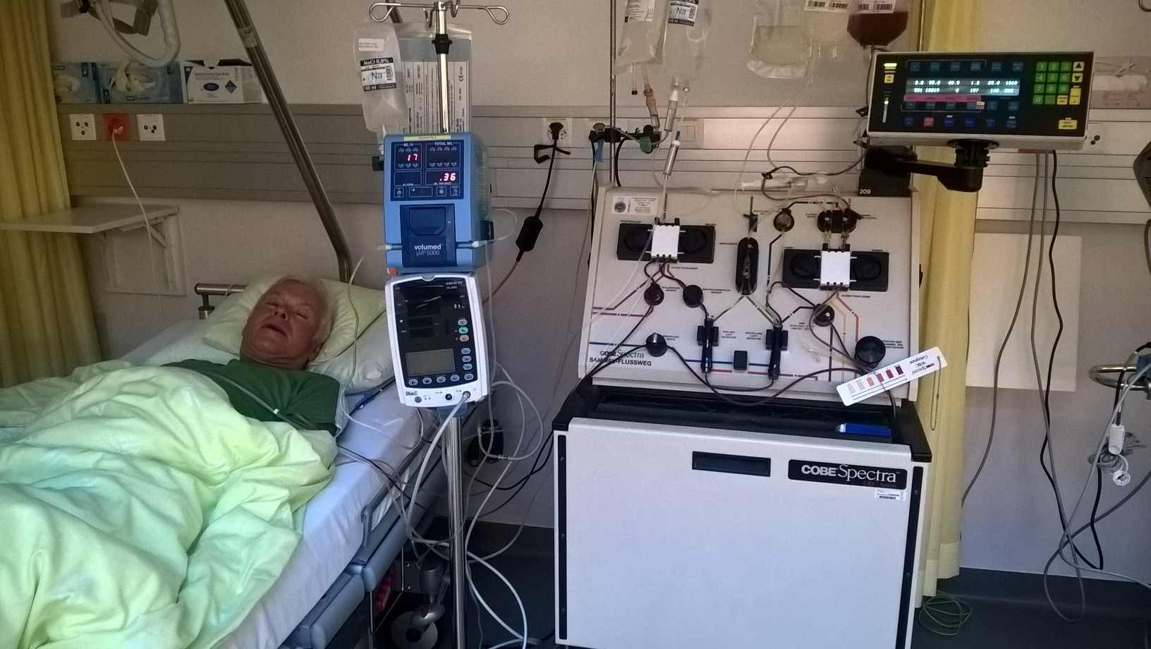 The Patient during removal of stem cells by apheresis.